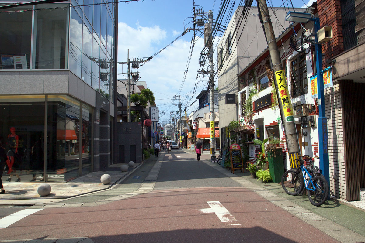 Daimyo street in Fukuoka city, Japan.